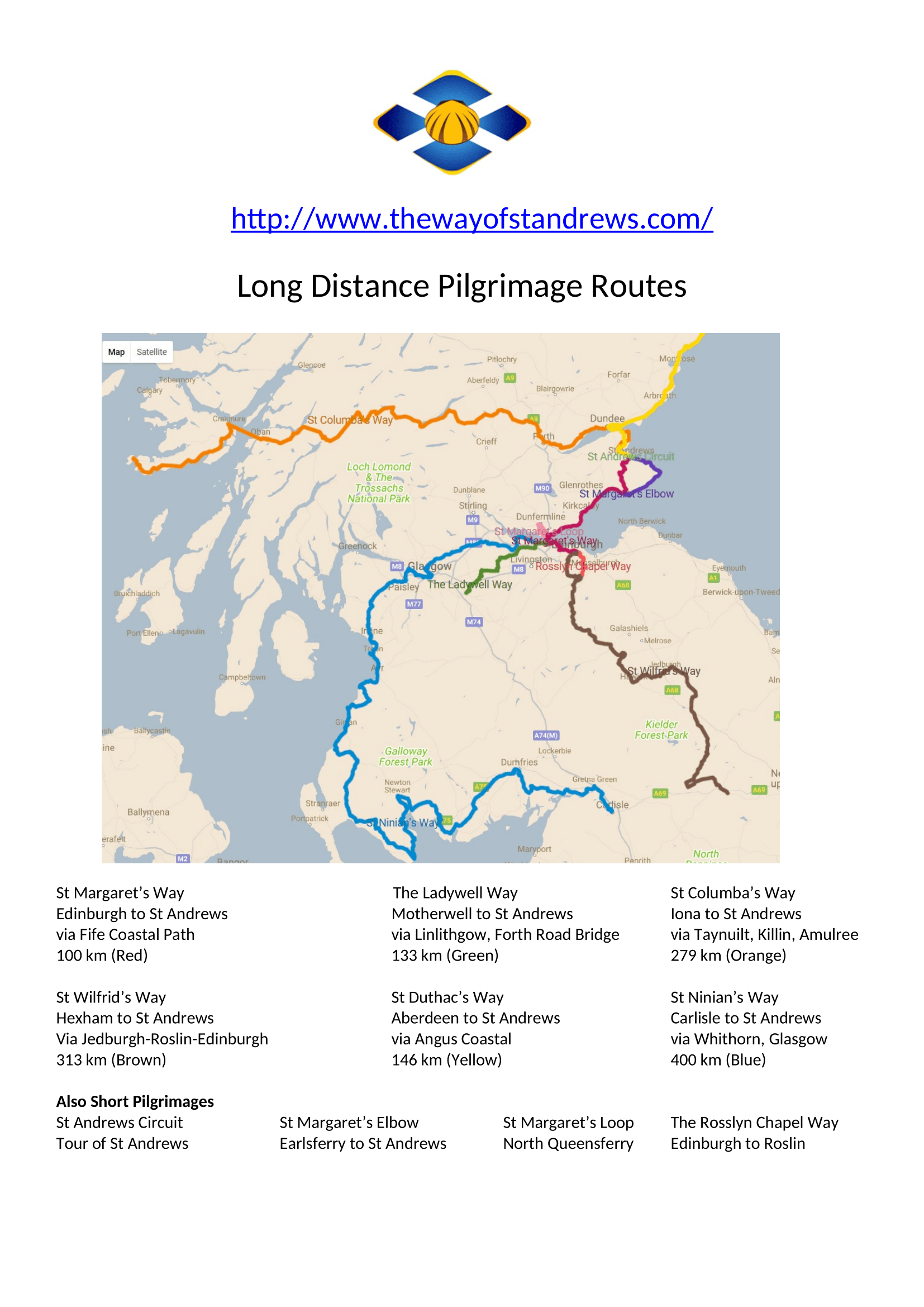 Map of Scotlkand with marked with the pilgrim ways